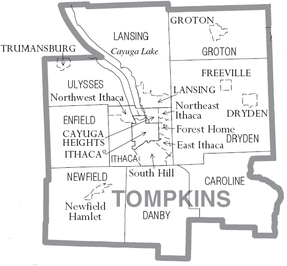 United States Census Bureau map of Tompkins County, New York